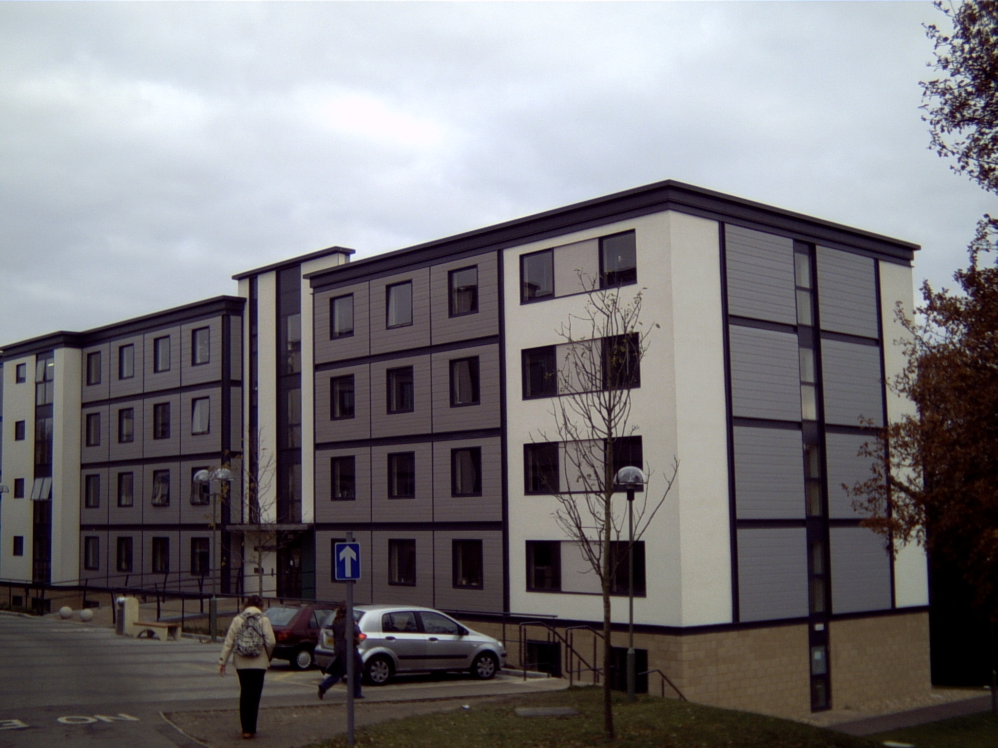 Tyler Court, Block C - halls of residence at the University of Kent. I took this photo, I hereby release it into the public domain.